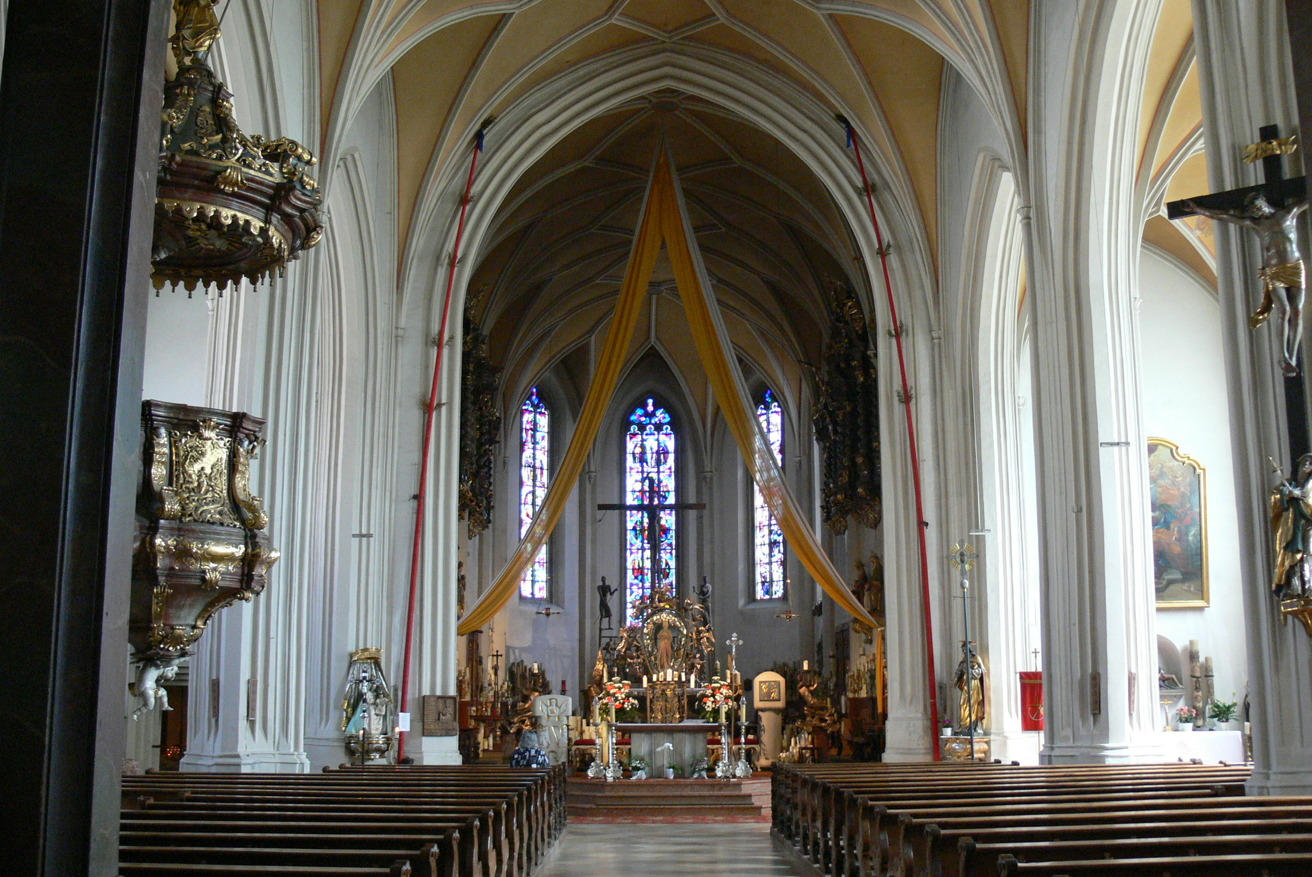 Bogenberg ( Lower Bavaria ). Mary-Assumption-Church: Interior.